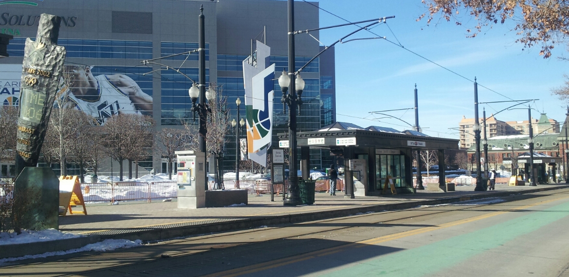 The Arena TRAX station in Salt Lake City with the EnergySolutions Arena in the background.